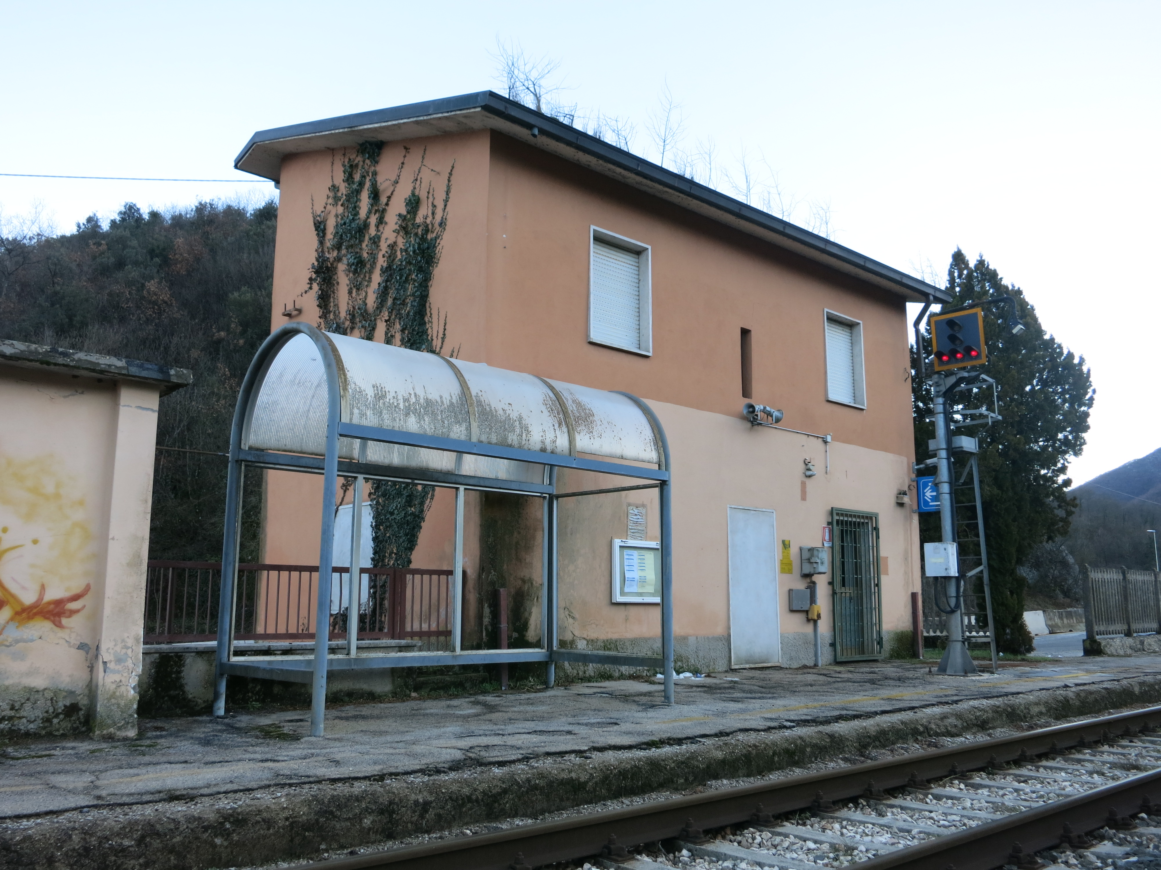 Labro-Moggio train station (province of Rieti, Lazio, Italy), on the Terni-Rieti-L'Aquila-Sulmona line.